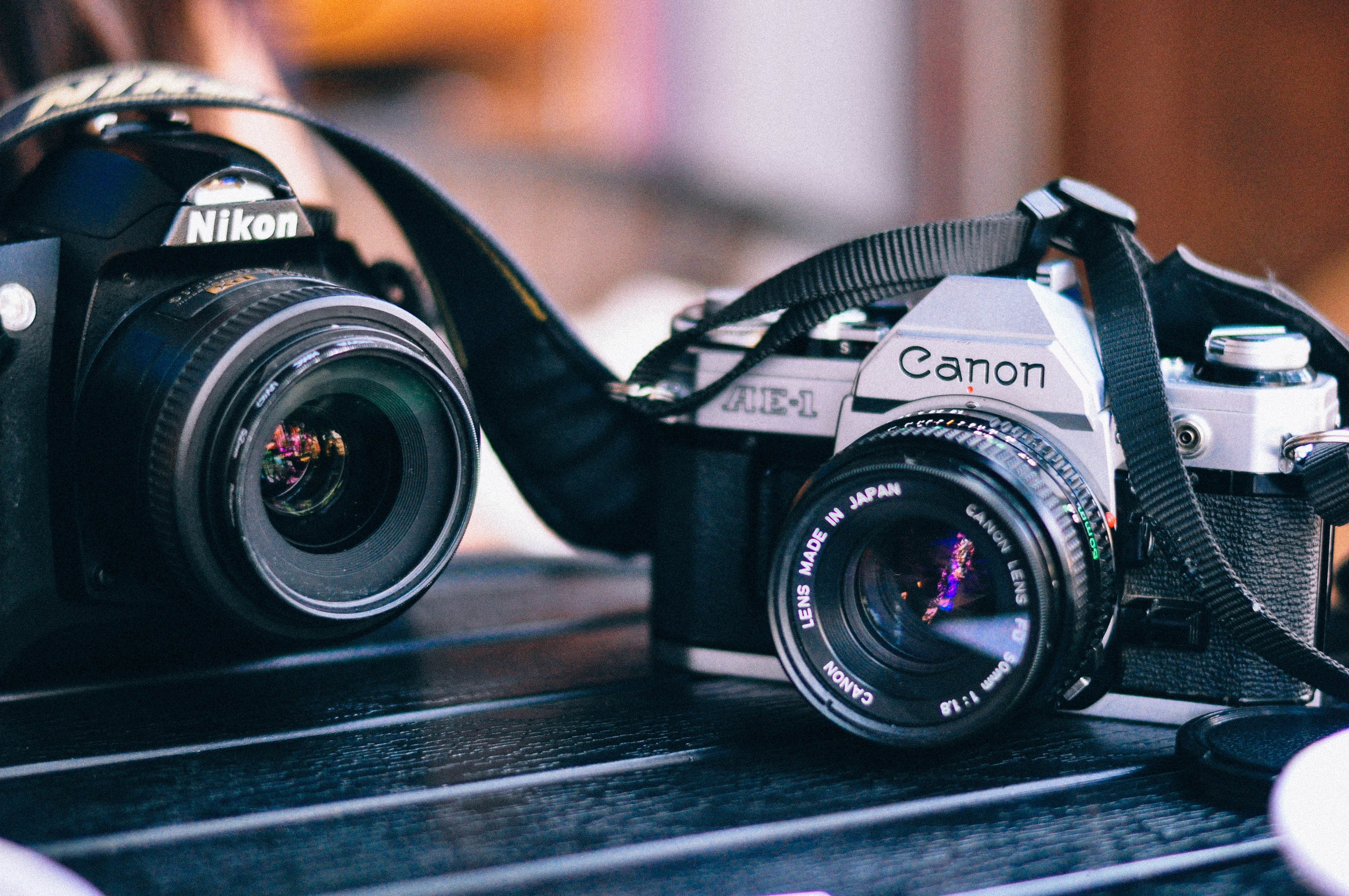 Rosalind Chang 2016-08-11